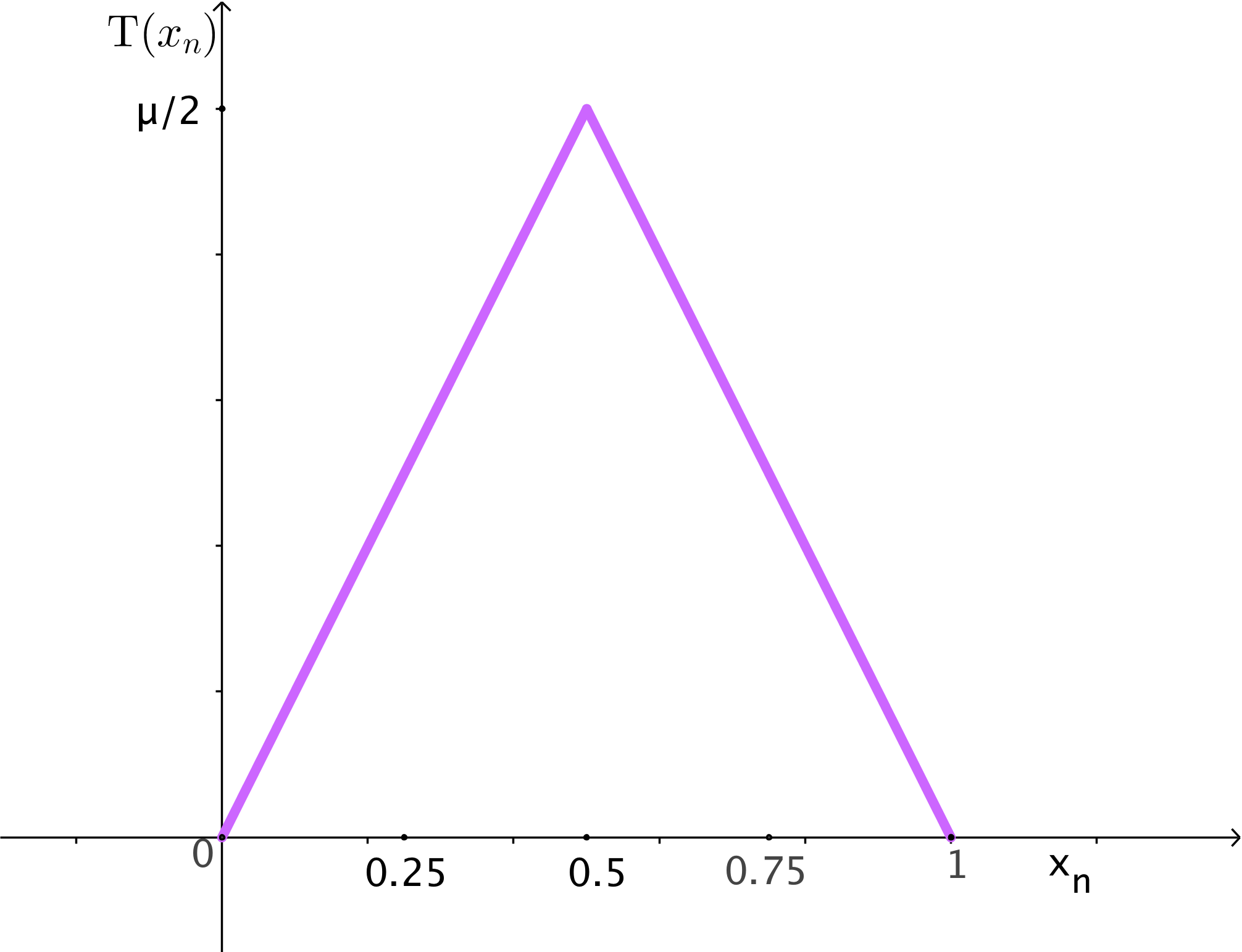 General case tent map